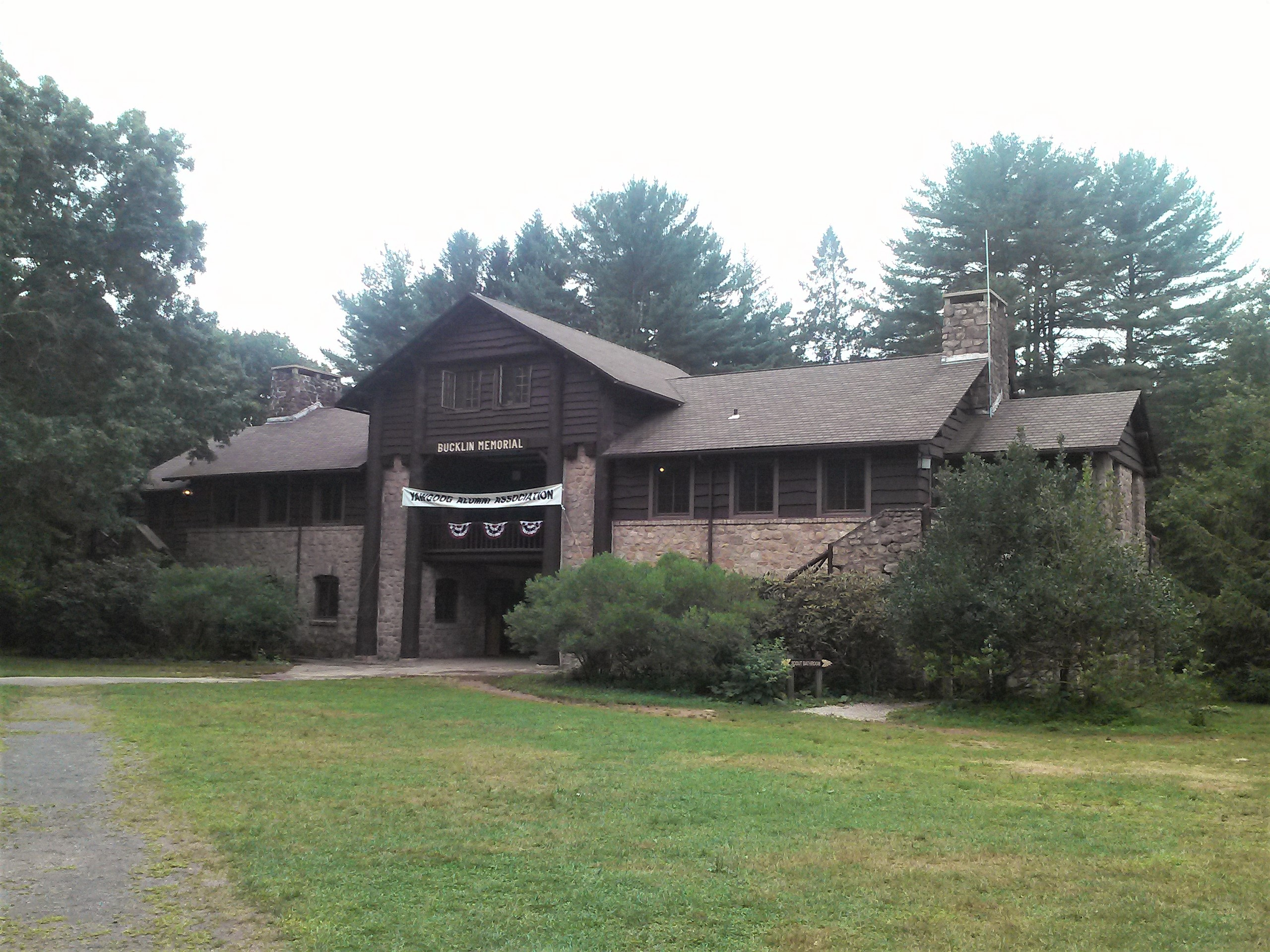 The Bucklin Memorial Building on the Yawgoog Scout Reservation in Rhode Island. Designed in 1933 by architects Jackson, Robertson & Adams.